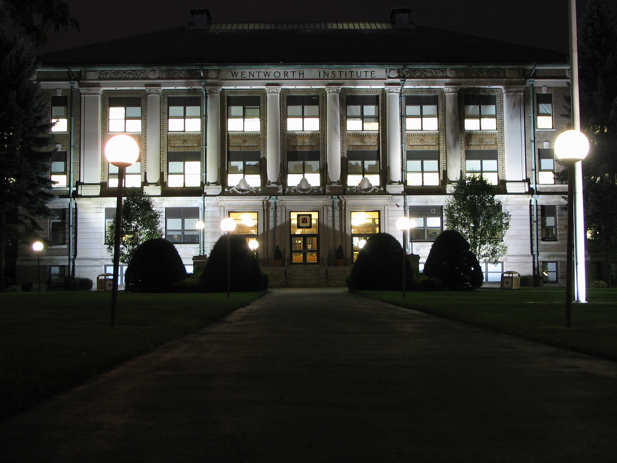 Taken By: Thomas Lasswell (BCOT class of: 2005)